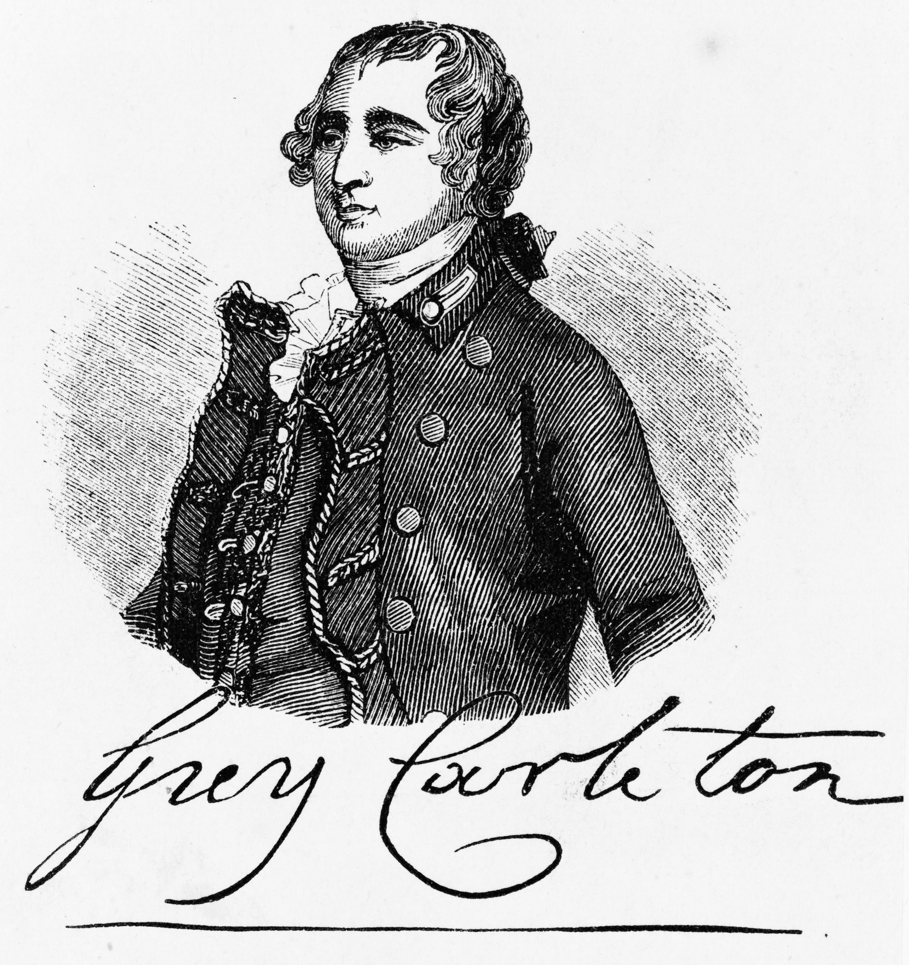 Guy Carleton, half-length portrait, facing left. Wood engraving. CREATED/PUBLISHED: between 1840 and 1890(?). REPOSITORY: Library of Congress Prints and Photographs Division Washington, D.C. 20540 USA .